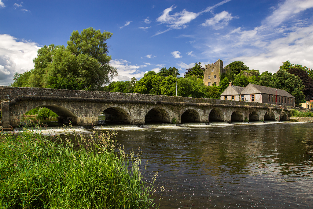 Castles of Munster: Ardfinnan, Tipperary. The original castle was built by Prince John in 1185, and after being taken by General Ireton, was garrisoned by Cromwellian troops throughout the 1650s. The castle was restored and rebuilt in the 18c and 19c, with the exception of a 15c tower. The castle together with the ancient bridge over the River Suir make an attractive group.